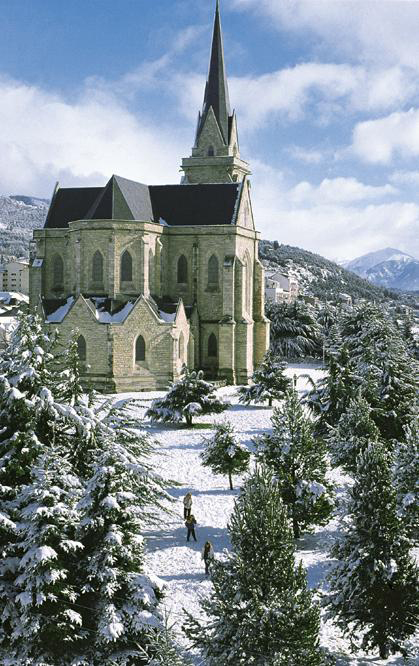 San Carlos de Bariloche city's Cathedral, in Rio Negro province, Argentina.